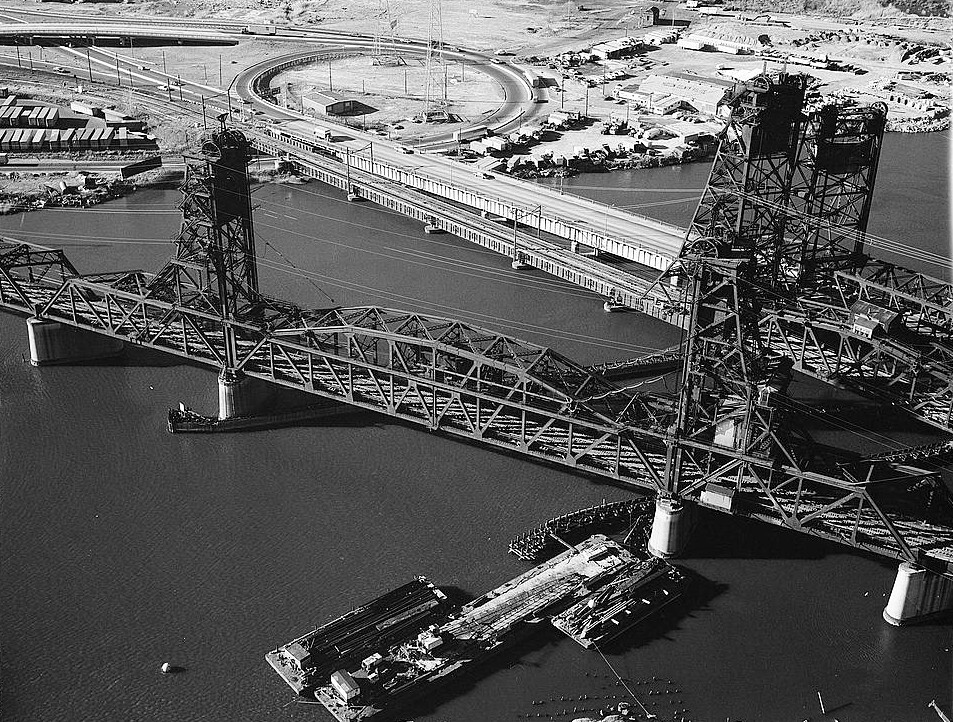 The PATH Lift Bridge over the Hackensack River originally carried the PRR main line to its Exchange Place terminal on the Hudson River as well as the Hudson and Manhattan Railroad trains between Manhattan Transfer and now to Newark Penn Station. Lower Hack Lift (passaic and Harsimus Line) and Wittpenn Bridge (Belleville Turnpike) are seen to right